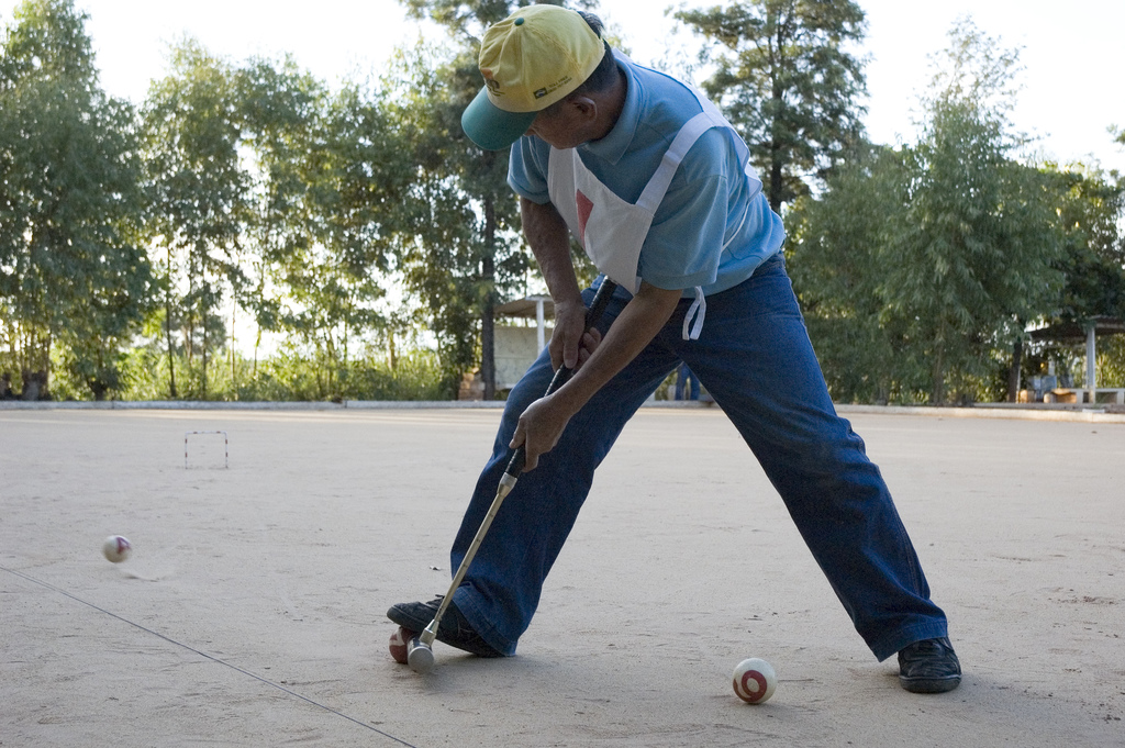 picture of a Gateball match